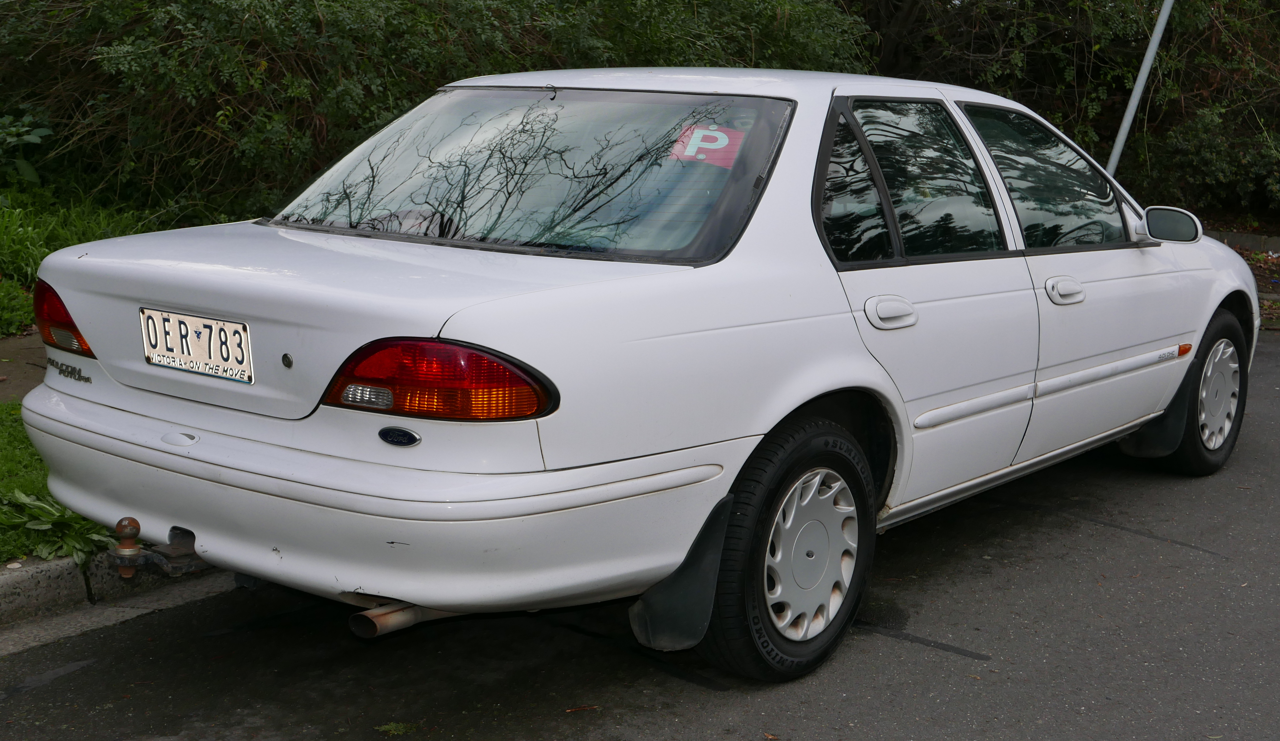 1996 Ford Falcon (EL) Futura sedan. Photographed in Ivanhoe, Victoria, Australia. Vehicle registration enquiry results Jurisdiction Victoria Registration OER783 Chassis code 6FPAAAJGSWTS84772 Engine code JGSWTS84772 Compliance date 1996-10 Year of manufacture 1997 (not a typo)